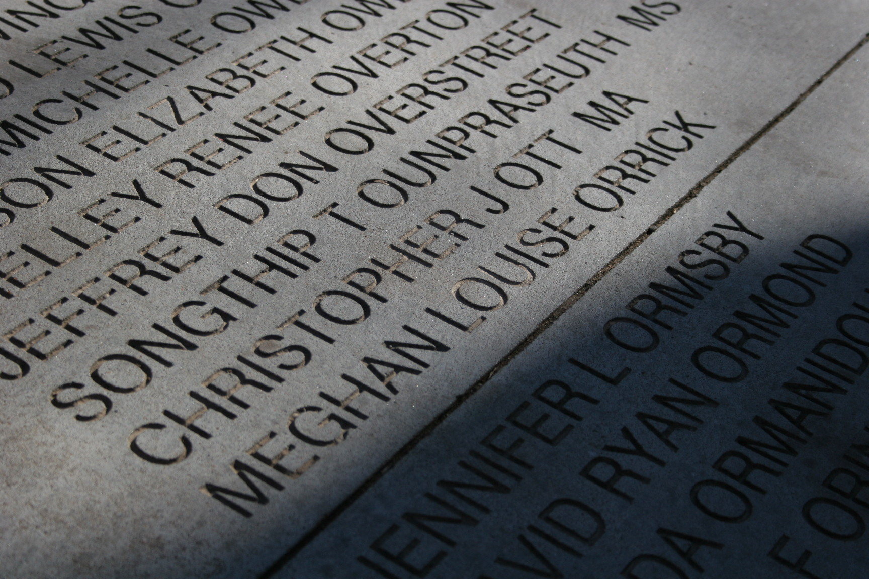 Sidewalk near Old Main building on University of Arkansas campus in Fayetteville, graduates of 2001